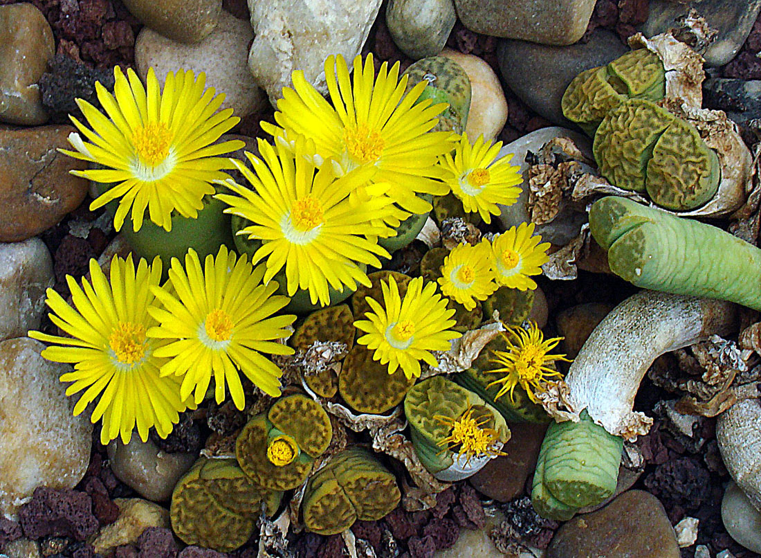 One of the Living Stone Plants of South Africa. Kew Gardens, London.